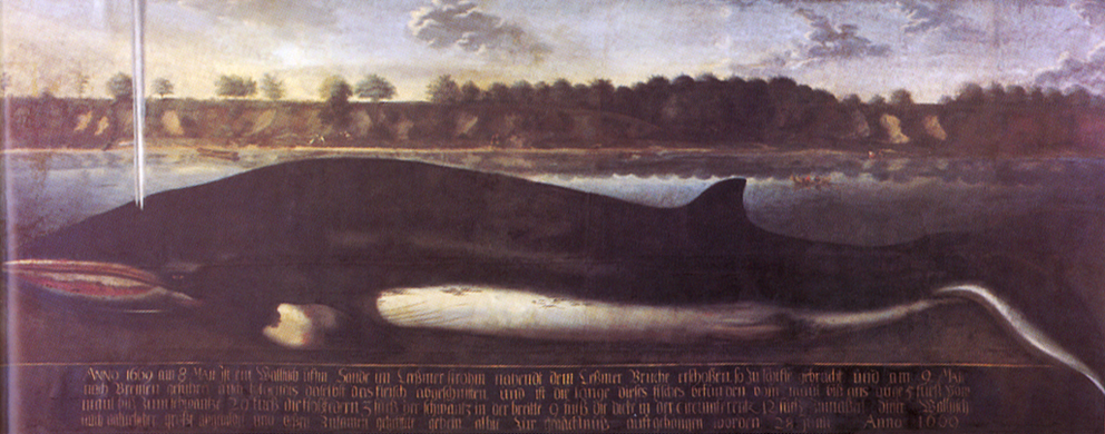 Oil painting Großes Waldbild (“Large whale picture”) from the year 1669 by the german painter Franz Wulfhagen (1624–1670), located in the town hall of Bremen, Germany. The picture shows a northern minke whale (Balaenoptera acutorostrata) stranded on the banks of the river Lesum in 1669.